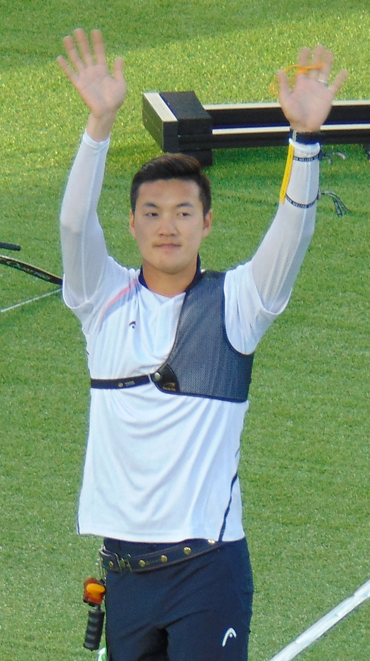 Rio 2016 - Men's archery finals